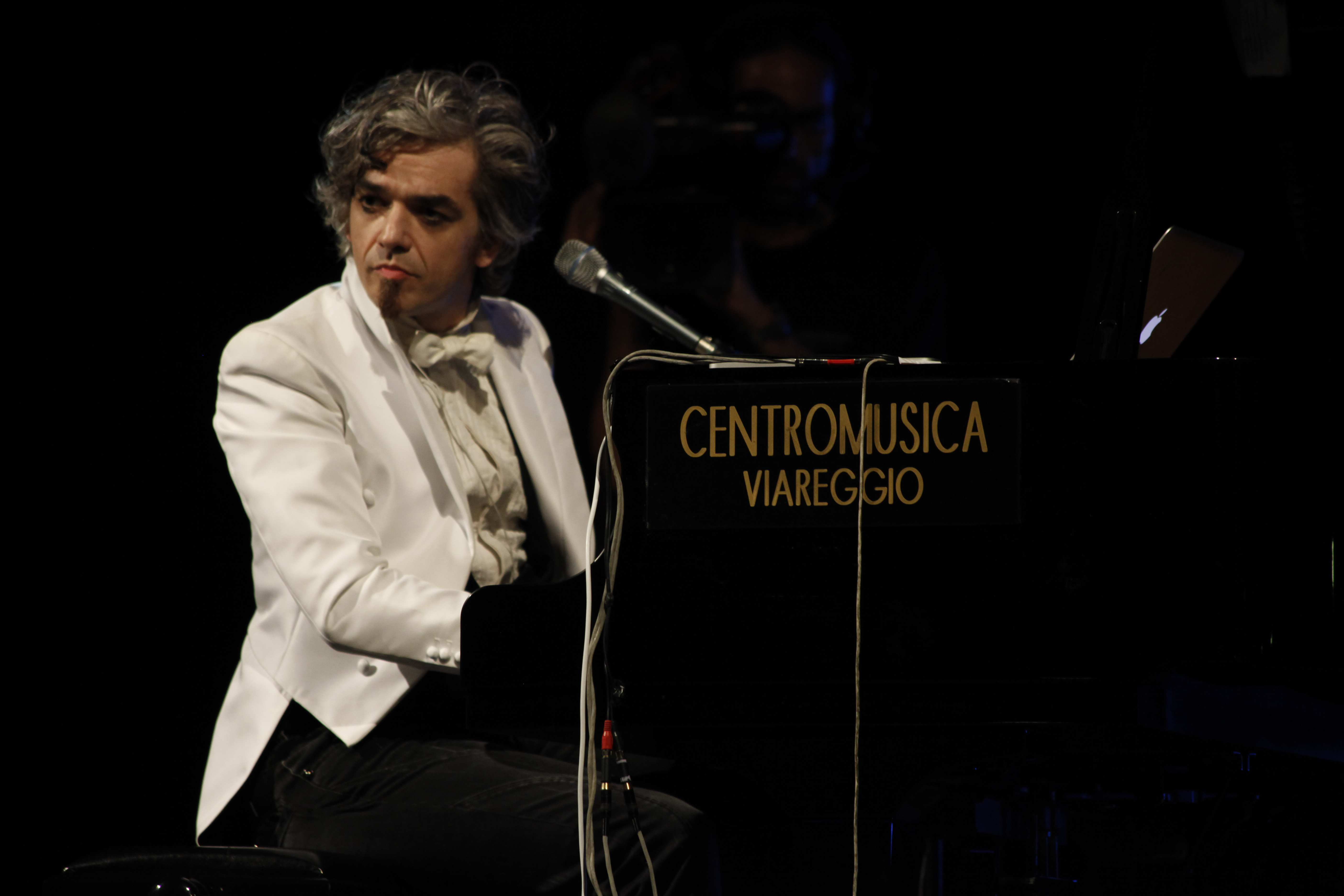 Italian singer-songwriter performing on 23 July 2010